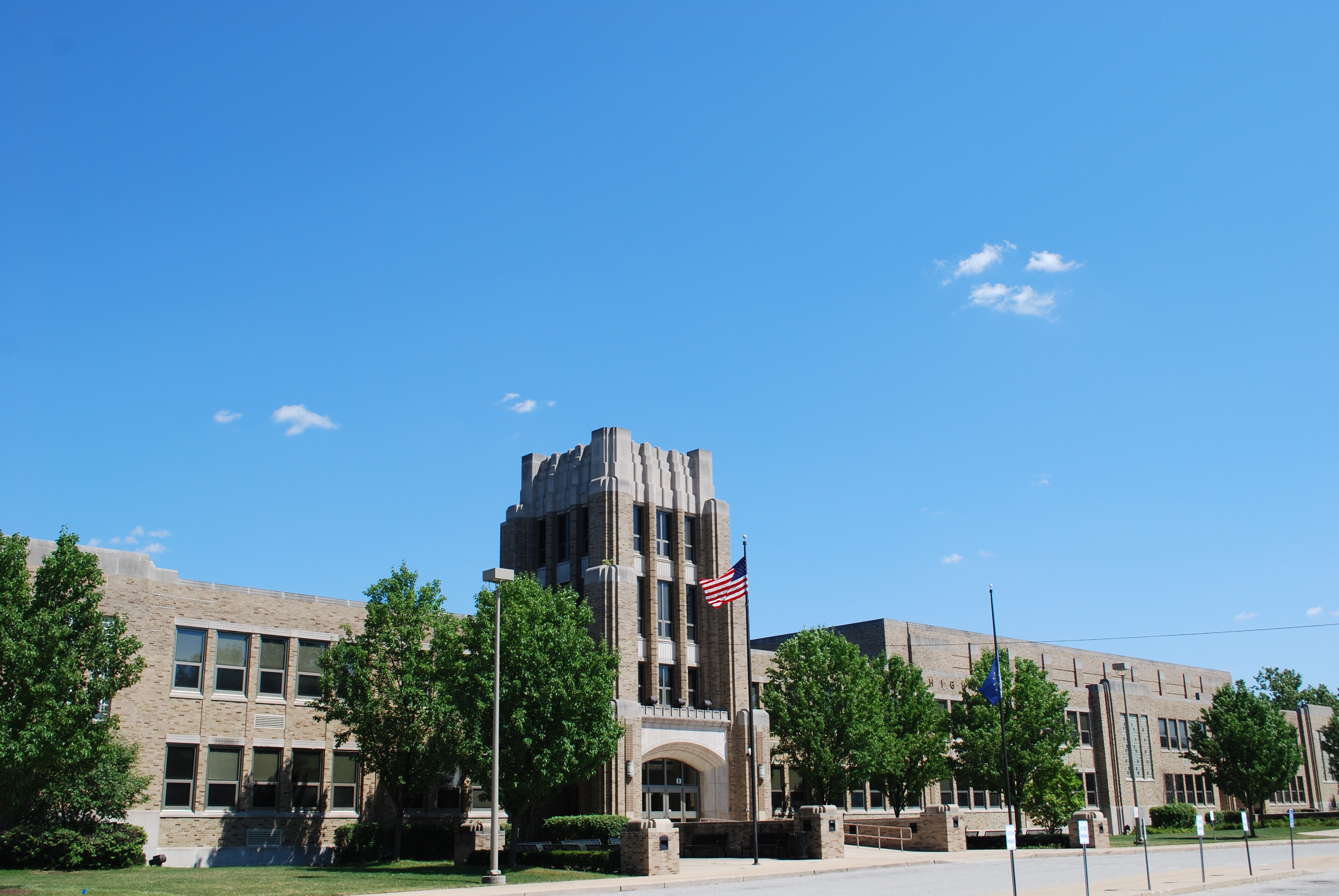 Front side of John Adams High School in South Bend, Indiana. Photo taken 30 July 2015.